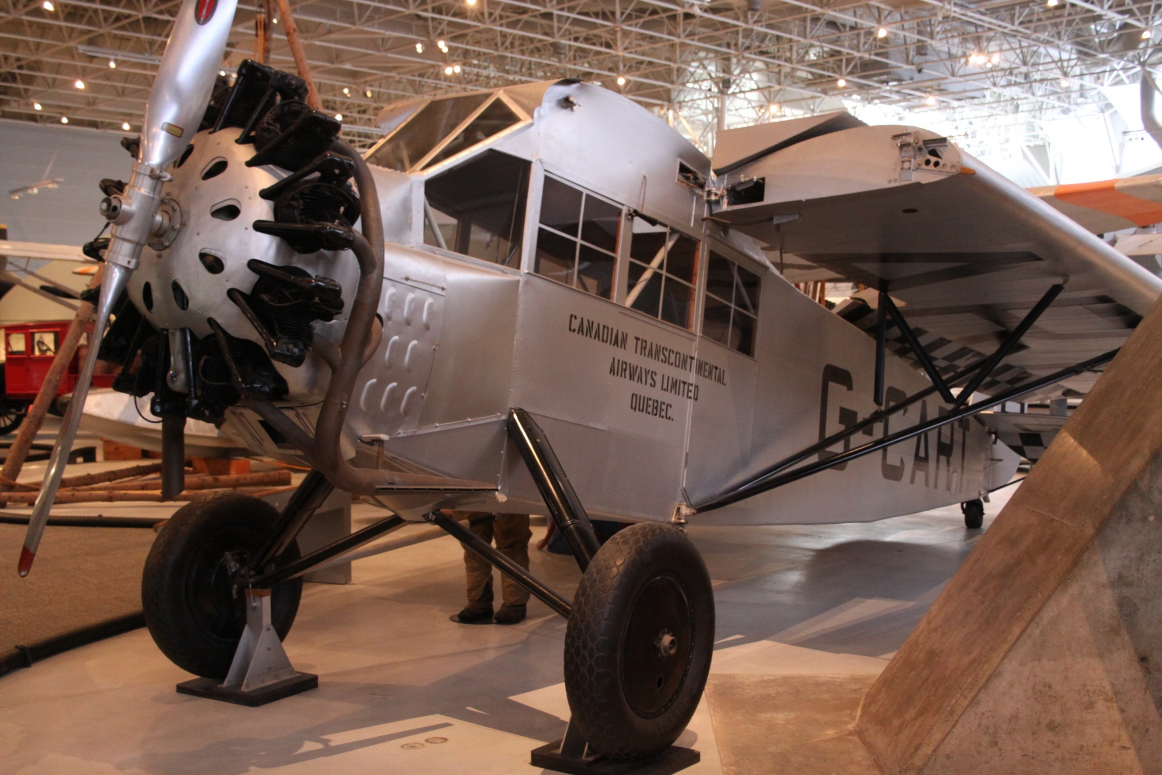 At Rockcliffe Canada Aviation Museum